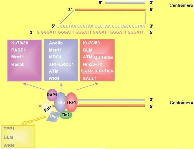 Interactome of the shelterin complex